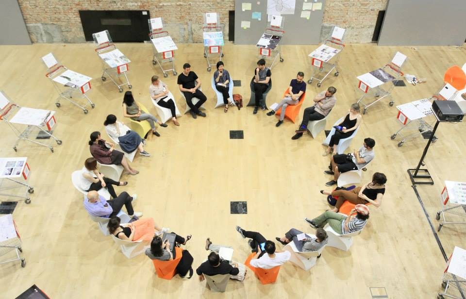 Think Space Money Nekonferencija